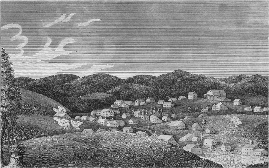 A view of Potosi, Missouri, the frontispiece of the book A View of the Lead Mines of Missouri by Henry Rowe Schoolcraft, published in 1819.